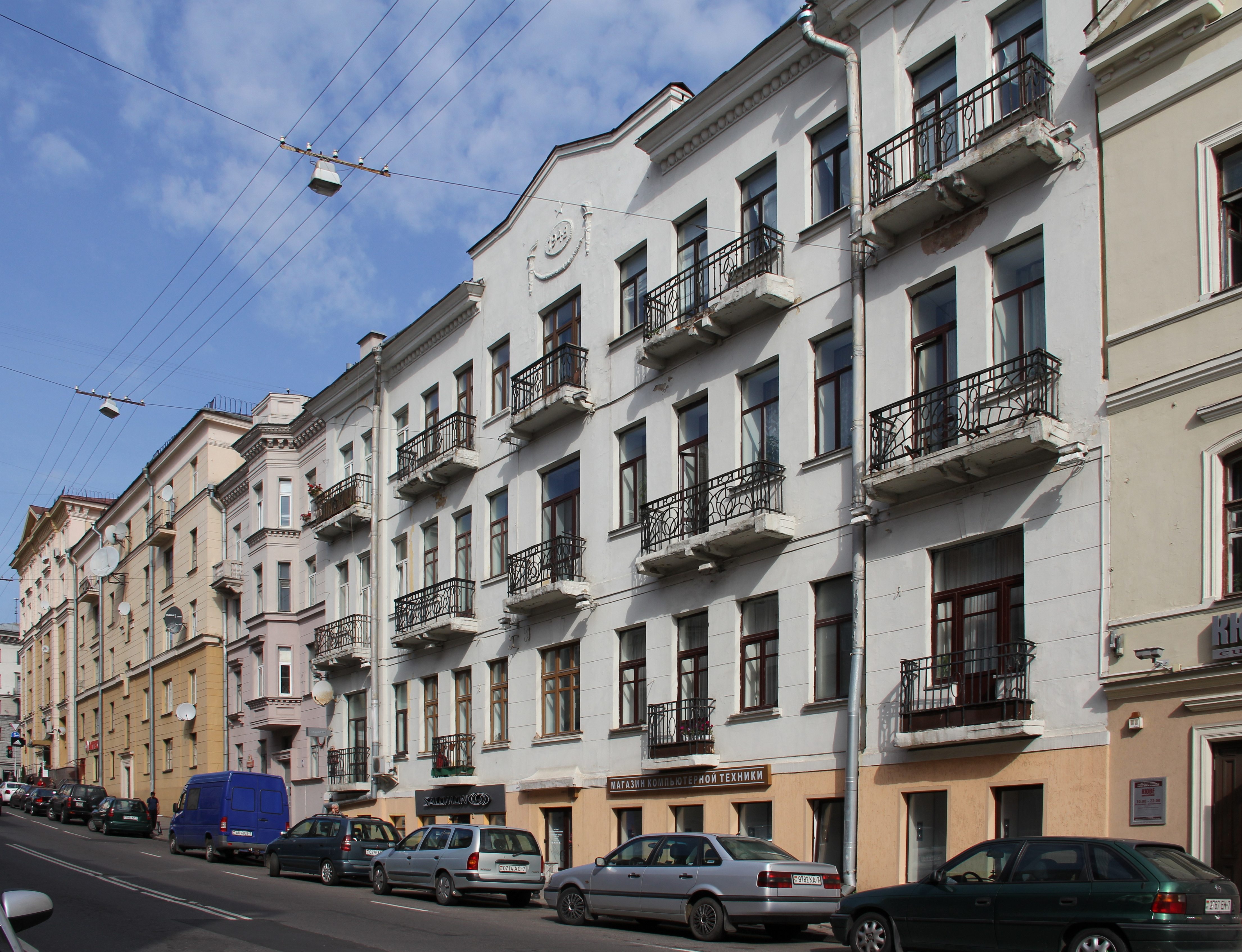 Беларуская (тарашкевіца): Будынак. г. Менск This is a photo of Belarusian heritage monument. Reference number: 713Г000025 ( WLM)